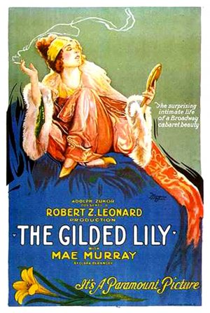 Poster for the 1921 film The Guilded Lily.